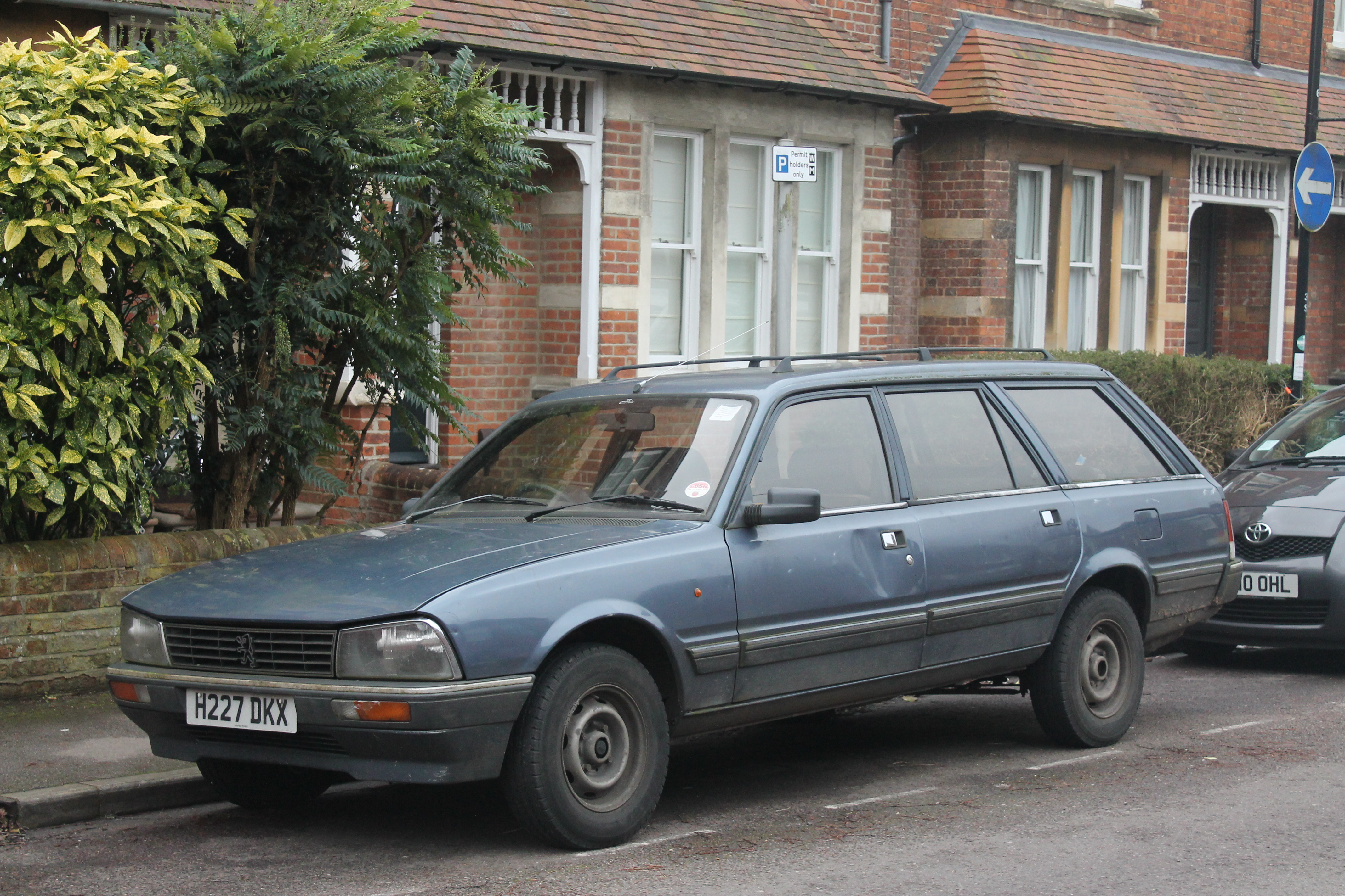 Nice to see a good old 505, haven't seen a saloon but still pleasing. This one looked like a well used example. These were incredibly practical cars, which probably is why there are still a handful about, but certainly not common. This is one of 17 of this spec on the roads, with 2 others from 1990. The vehicle details for H227 DKX are: Date of Liability 01 06 2014 Date of First Registration 27 09 1990 Year of Manufacture 1990 Cylinder Capacity (cc) 1971cc CO₂ Emissions Not Available Fuel Type PETROL Export Marker N Vehicle Status Licence Not Due Vehicle Colour BLUE Vehicle Type Approval Not Available